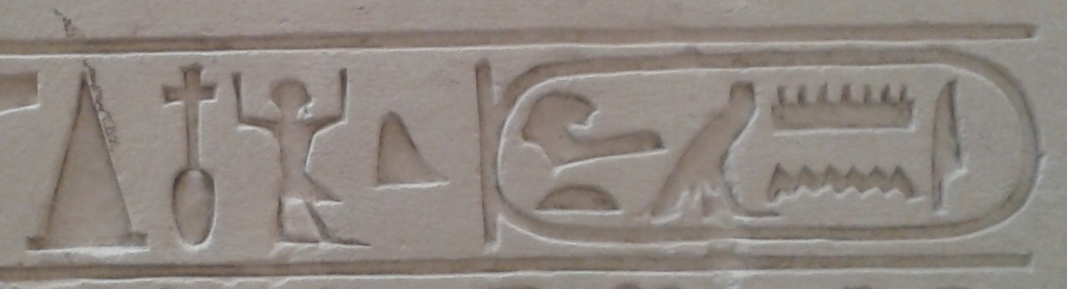 Name of the pyramid of Amenemhat III at Dashur, Amenemhat is mighty and perfect, Musee du Louvre